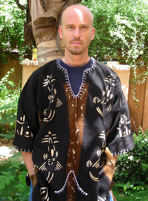 Adult male wearing a mudcloth shirt